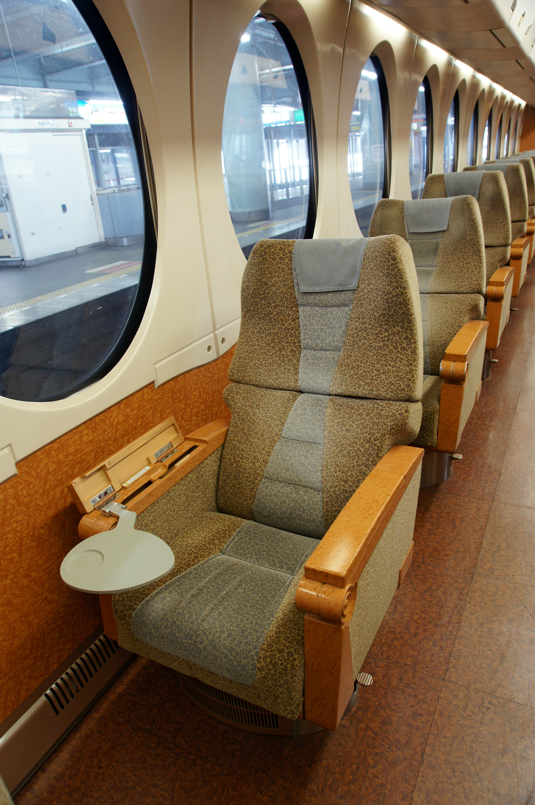 Nankai Electric Railway type 50000 for Rapi:t